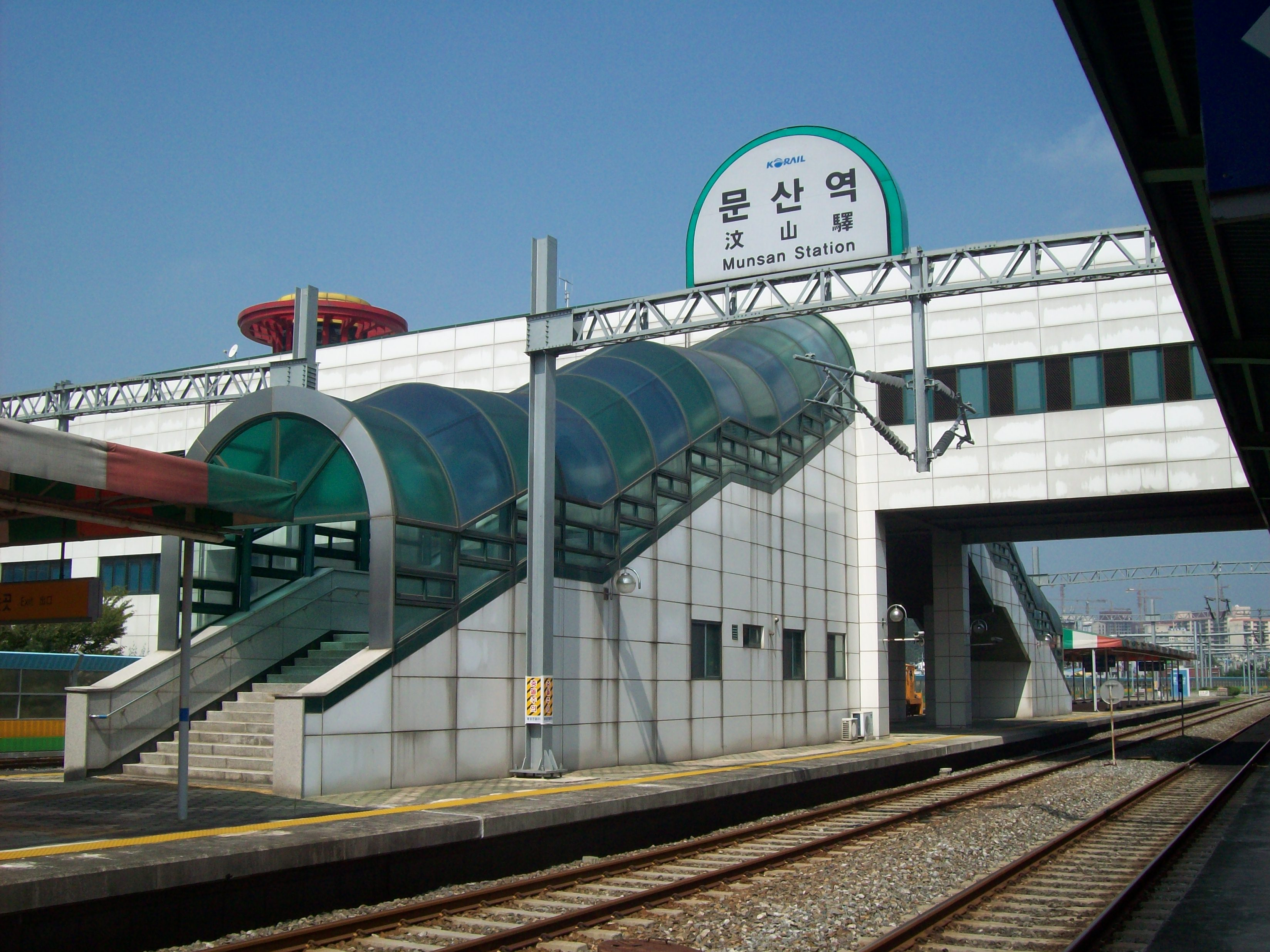 Munsan Station